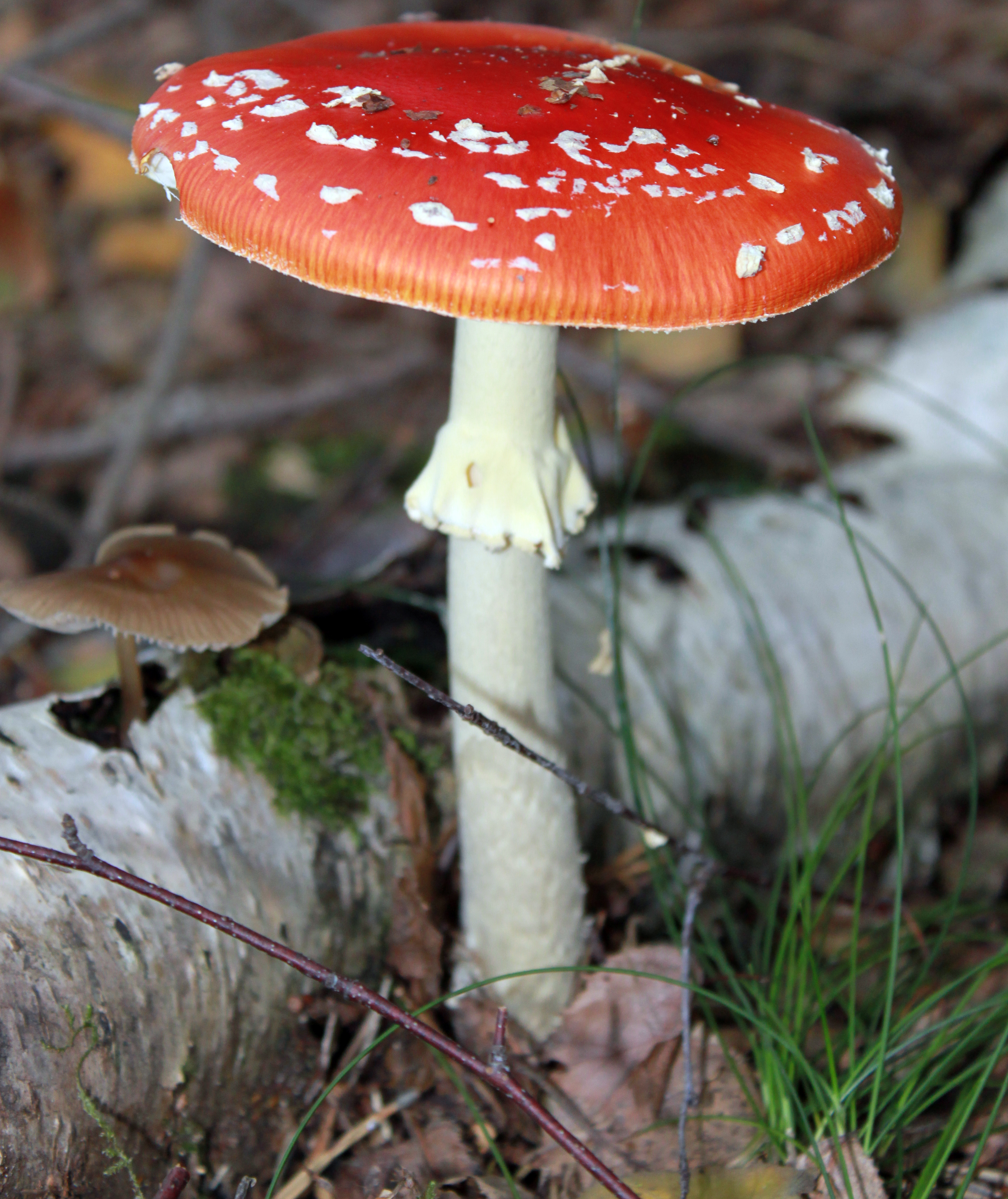 Amanita muscaria; fly agaric(frequently encountered in the vicinity of Birches) in a forest in the Palatinate, Germany